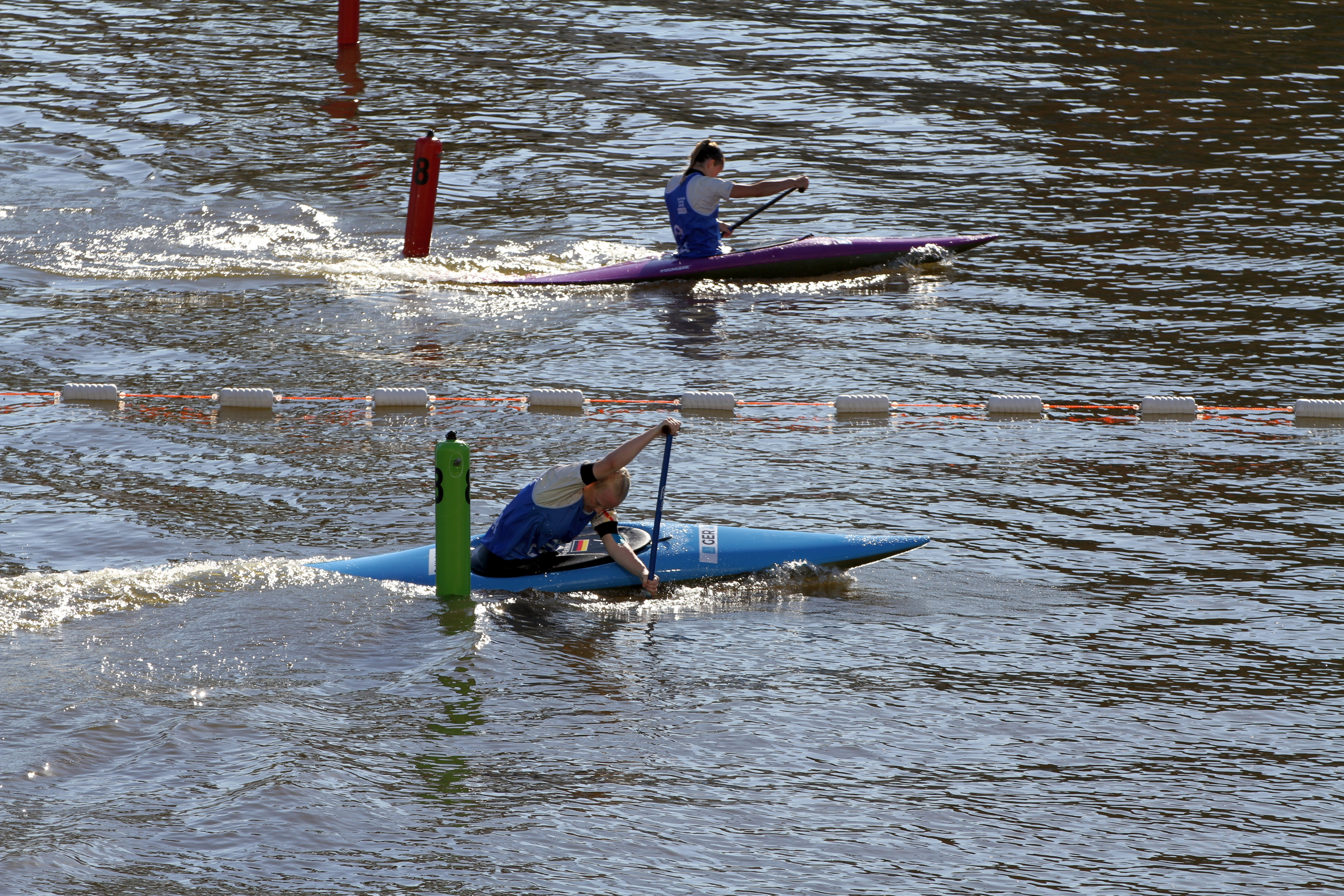 Canoeing at the 2018 Summer Youth Olympics at 16 October 2018 – Girls' C1 slalom Gold Medal Race: Doriane Delassus (France) - Zola Lewandowski (Germany)